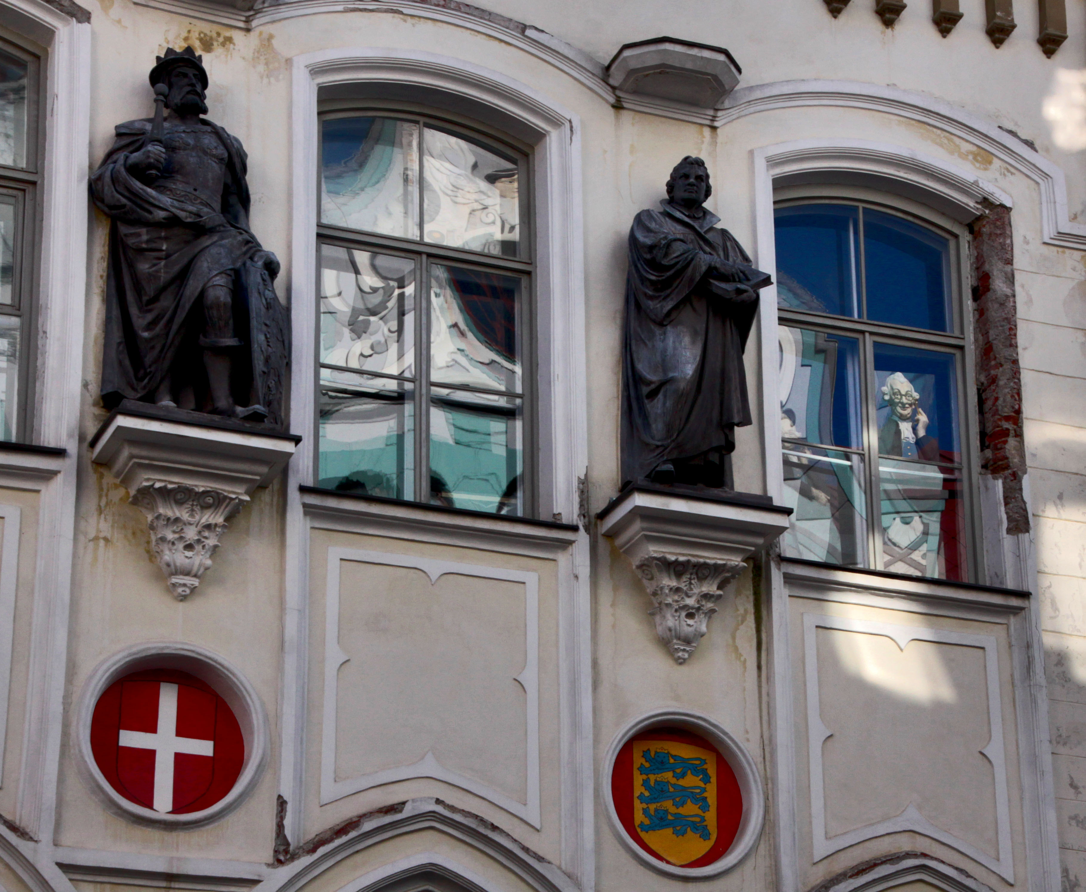 Tallinn. In the Old Town.